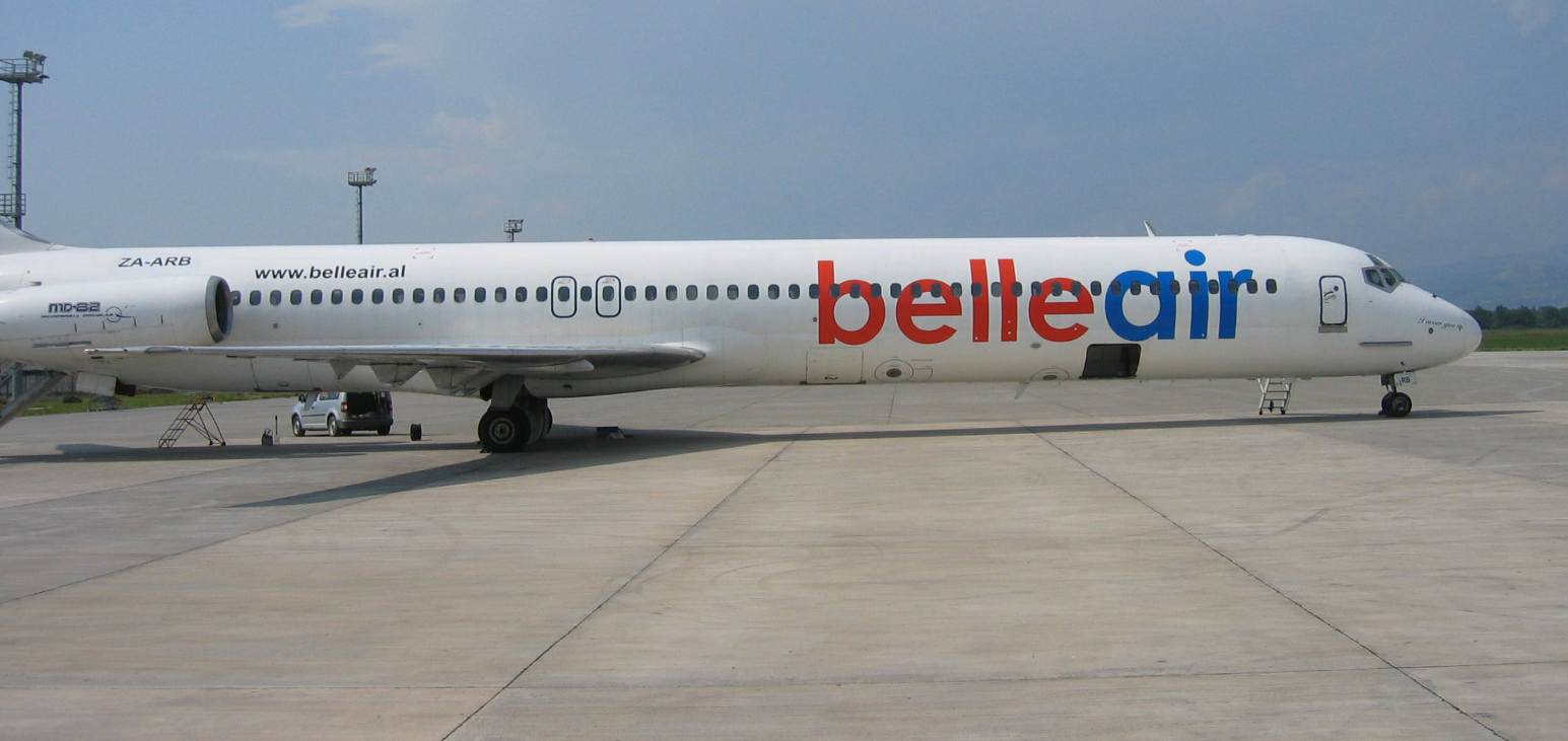 MD-82 of Albanian air carrier Belle Air at Tirana's Rinas Mother Teresa Airport